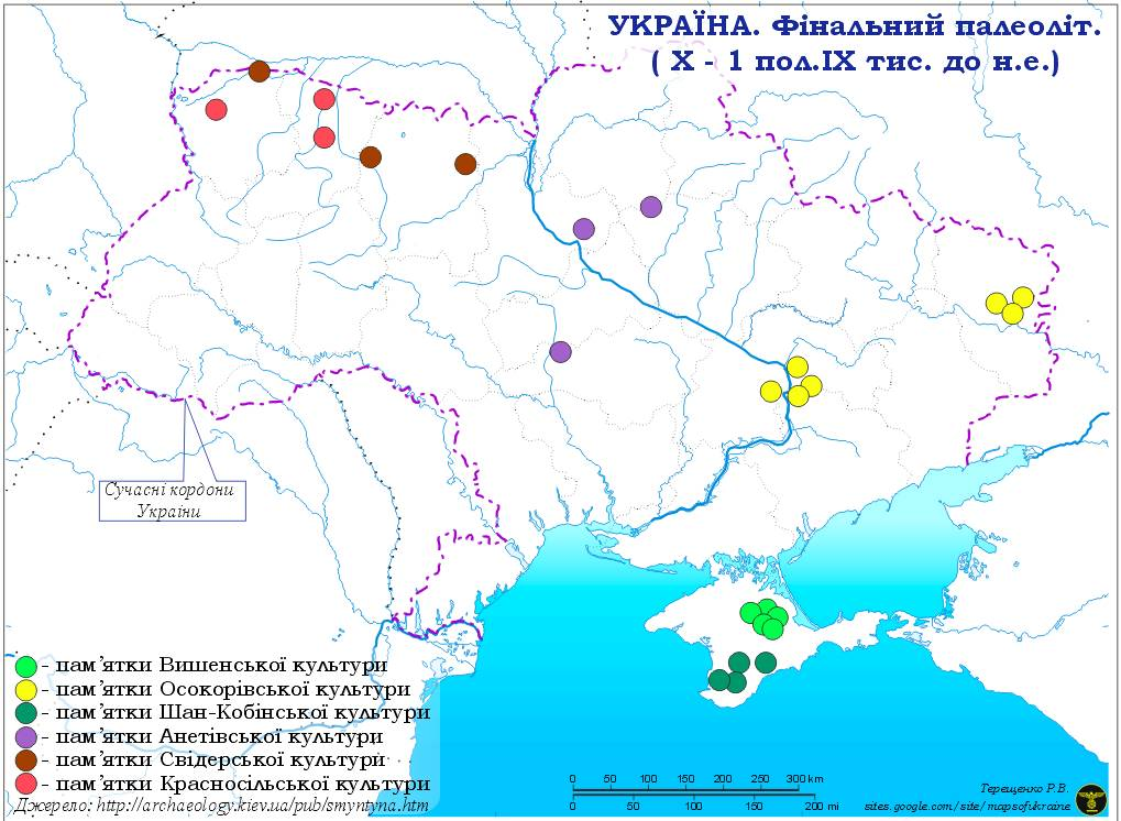 Final Palaeolithic in Ukraine